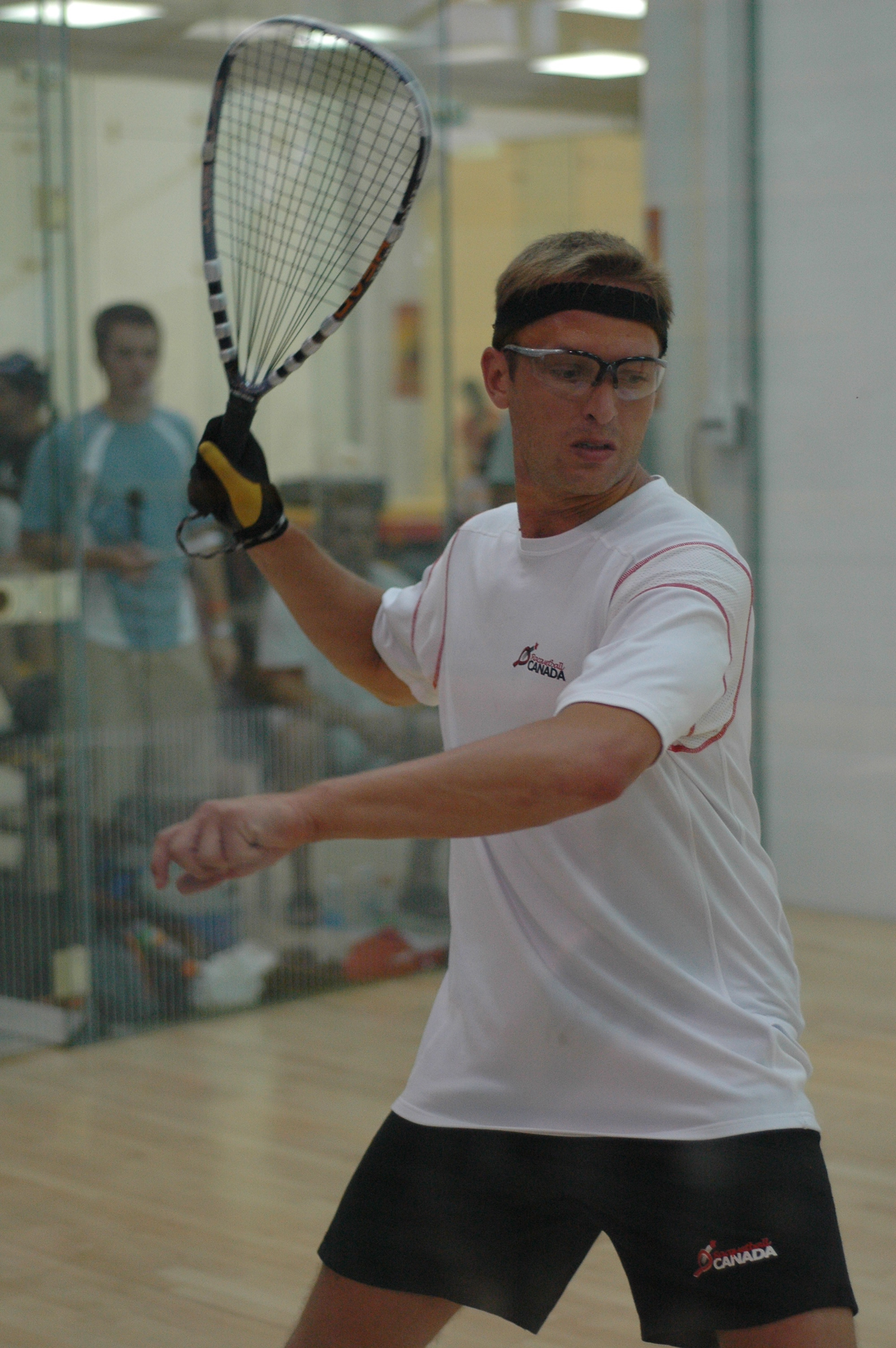 Mike Green at 2006 IRF World Racquetball Championships in Santo Domingo, Dominican Republic